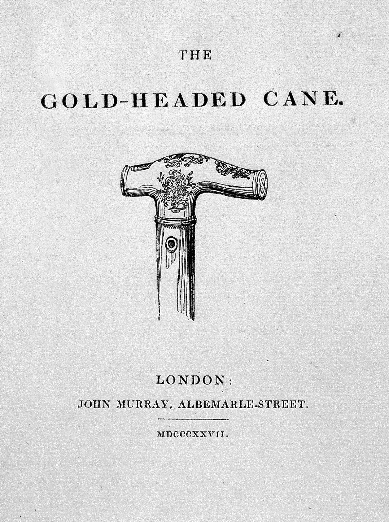 Title page Rare Books